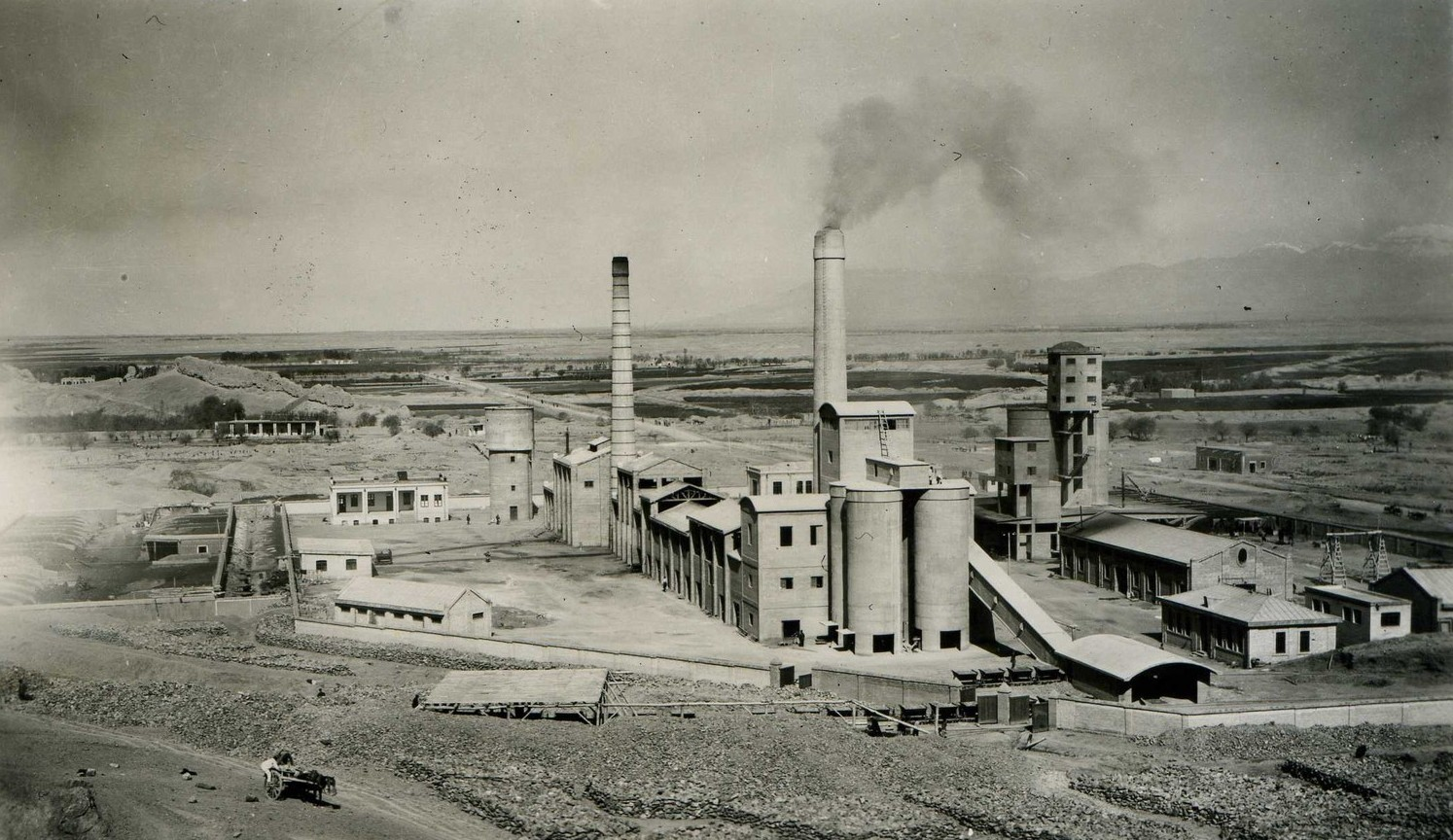 Cement factory near Teheran, Iran. Postcard postally used in 1933.